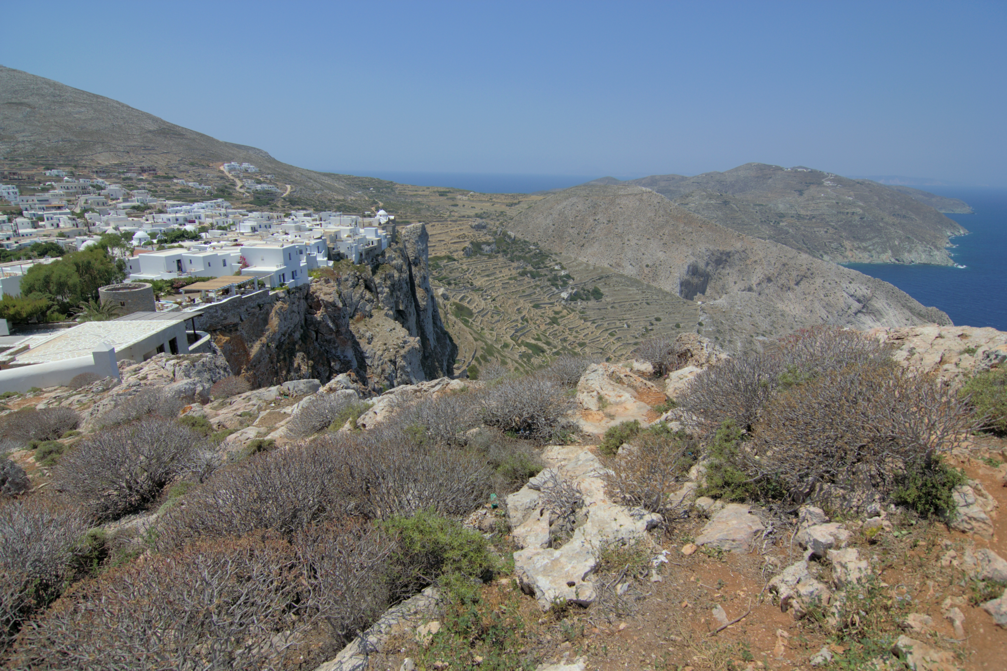 Chora of Folegandros, by way to Panagia of Folegandros.